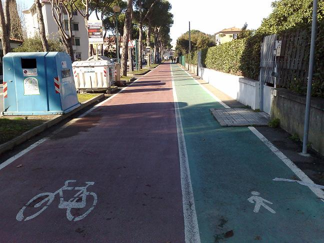 Pisa street